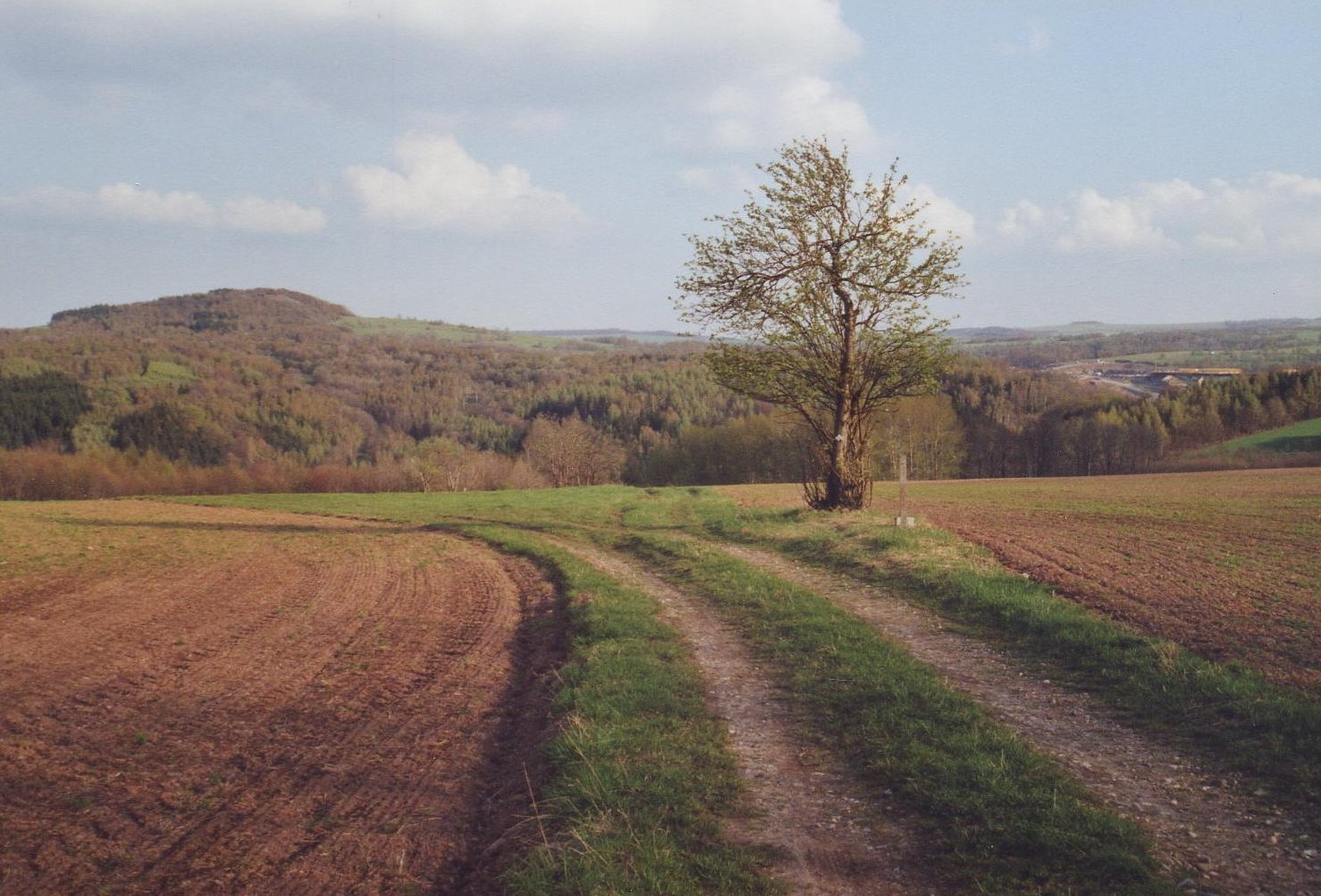 This image shows the hill Špičák/Sattelberg (left, 723 m) in the Ore mountains and the building site of the Highway Dresden - Prag (right).